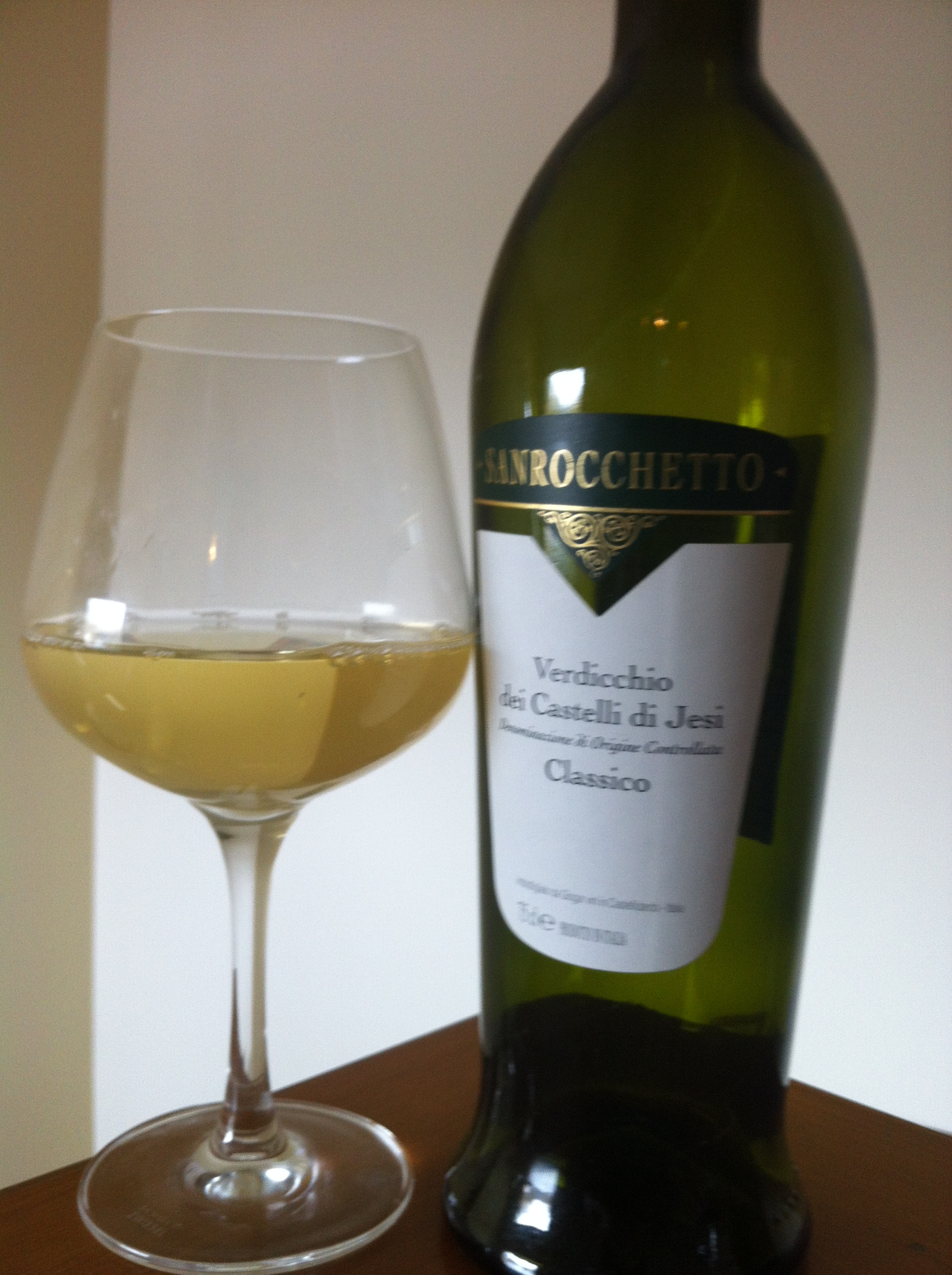 Italian white wine from the Marche region